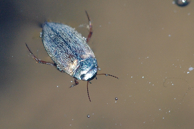 Picture taken in Commanster, Belgian High Ardennes . Species: Hydroporus pubescens